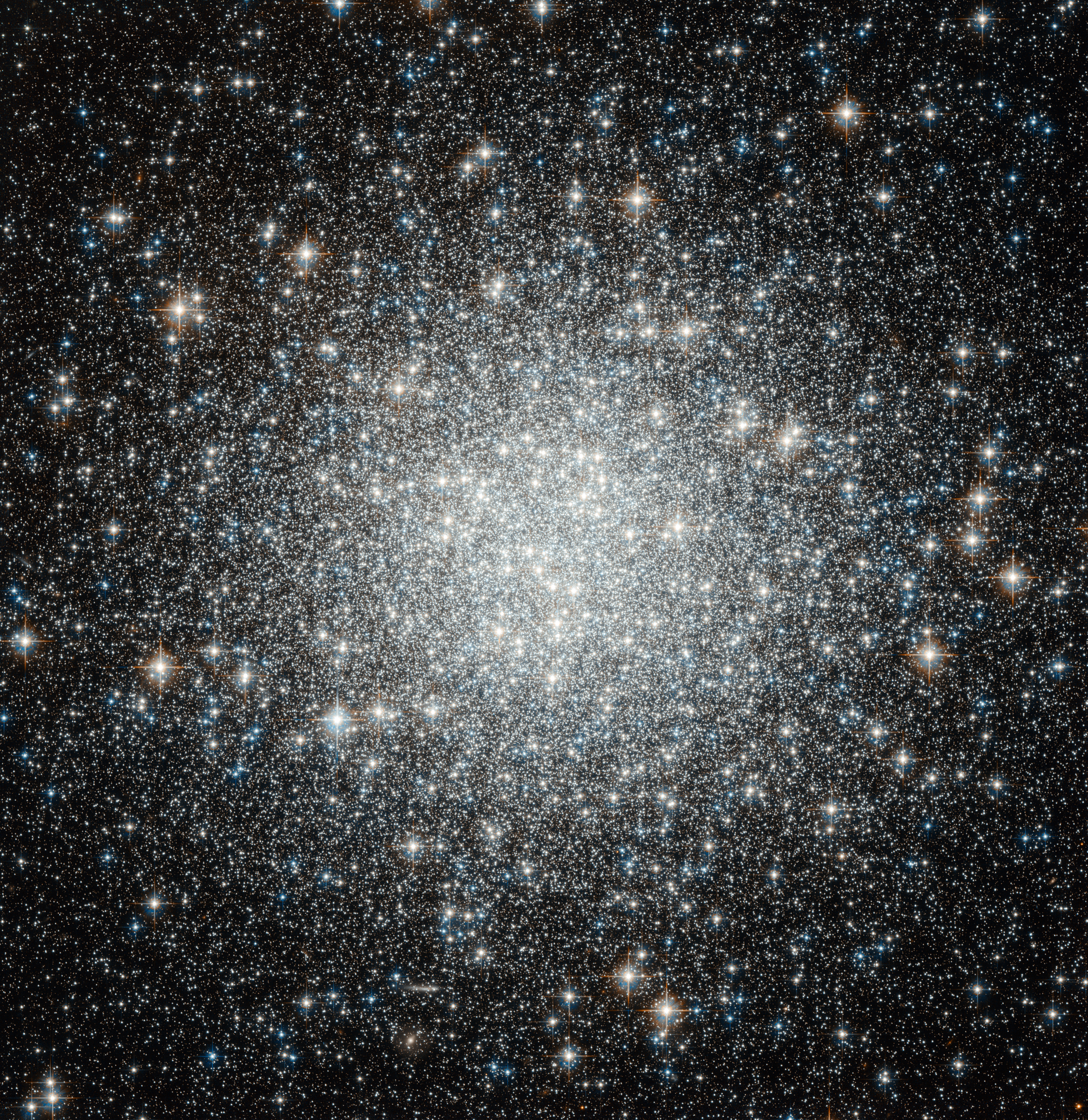 Thousands and thousands of brilliant stars make up this globular cluster, Messier 53, captured with crystal clarity in this image from the NASA/ESA Hubble Space Telescope. Bound tightly by gravity, the cluster is roughly spherical and becomes denser towards its heart. These enormous sparkling spheres are by no means rare, and over 150 exist in the Milky Way alone, including Messier 53. It lies on the outer edges of the galaxy, where many other globular clusters are found, almost equally distant from both the centre of our galaxy and the Sun. Although they are relatively common, the famous astronomer William Herschel, not at all known for his poetic nature, once described a globular cluster as “one of the most beautiful objects I remember to have seen in the heavens”, and it is clear to see why. Globular clusters are much older and larger than open clusters, meaning they are generally expected to contain more old red stars and fewer massive blue stars. But Messier 53 has surprised astronomers with its unusual number of a type of star called blue stragglers. These youngsters are rebelling against the theory of stellar evolution. All the stars in a globular cluster are expected to form around the same time, so they are expected follow a specific trend set by the age of the cluster and based on their mass. But blue stragglers don’t follow that rule; they appear to be brighter and more youthful than they have any right to be. Although their precise nature remains mysterious these unusual objects are probably formed by close encounters, possibly collisions, between stars in the crowded centres of globular clusters. This picture was put together from visible and infrared exposures taken with the Wide Field Channel of Hubble's Advanced Camera for Surveys.The field of view is approximately 3.4 arcminutes across.